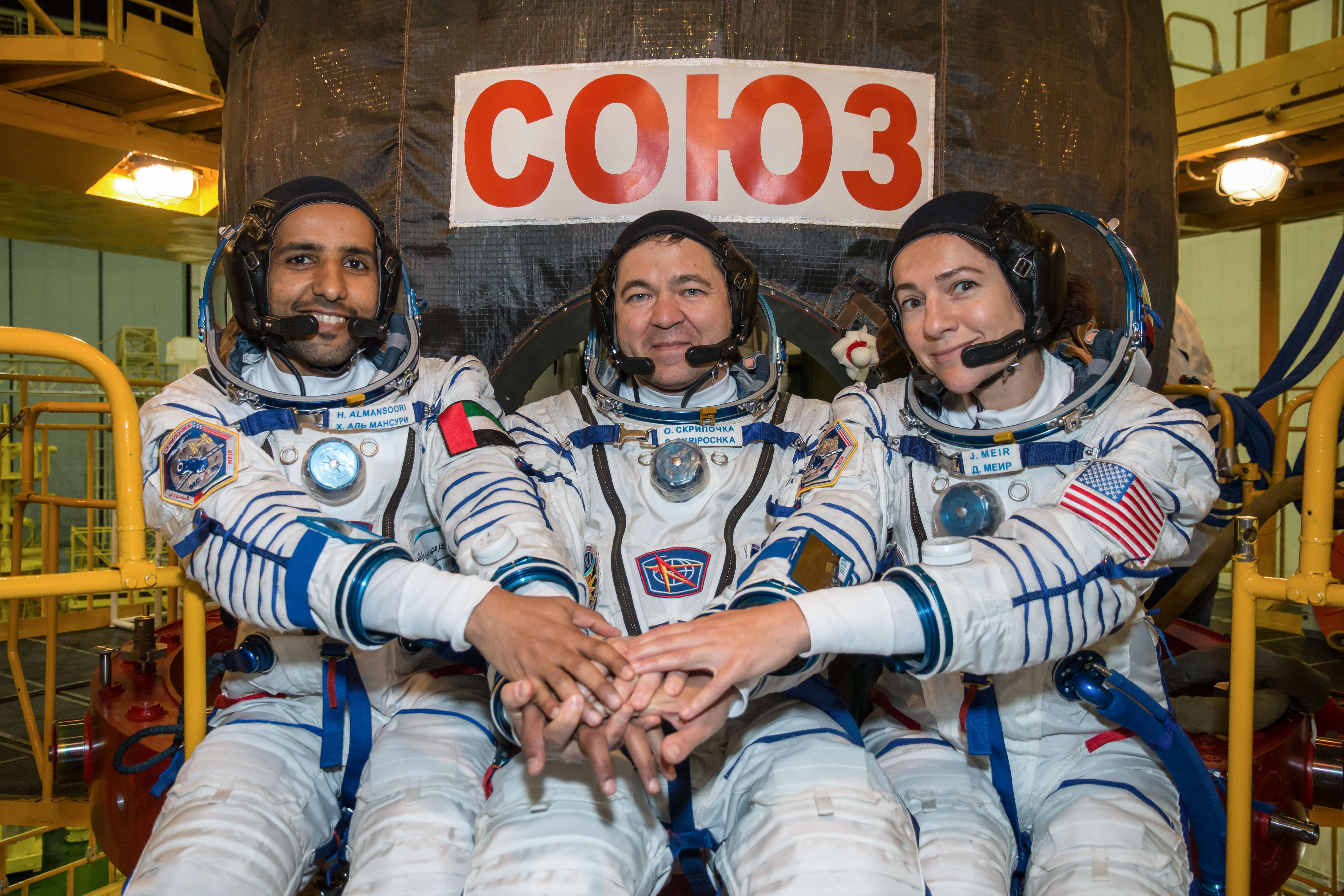 In the Integration Building at the Baikonur Cosmodrome in Kazakhstan, spaceflight participant Hazzaa Ali Almansoori of the United Arab Emirates (left) and Expedition 61 crewmates Oleg Skripochka of Roscosmos (center) and Jessica Meir of NASA (right) pose for pictures Sept. 11 in front of their Soyuz MS-15 spacecraft. They will launch Sept. 25 on the Soyuz MS-15 spacecraft from the Baikonur Cosmodrome for a mission on the International Space Station.